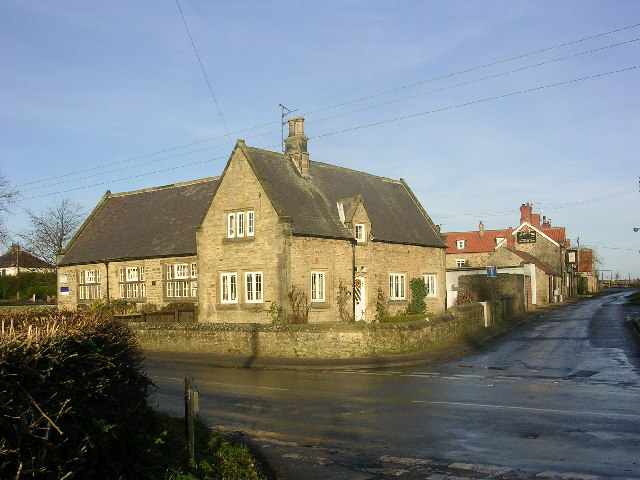 Village school and pub (the Crown) at Manfield, North Yorkshire